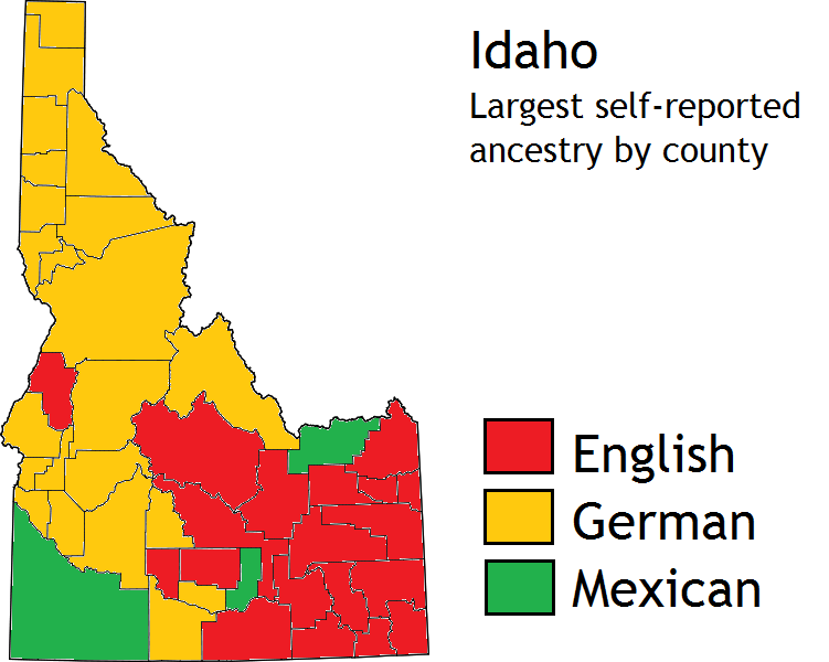 Idaho. Largest self-reported ancestry by county. Data from 2000 census